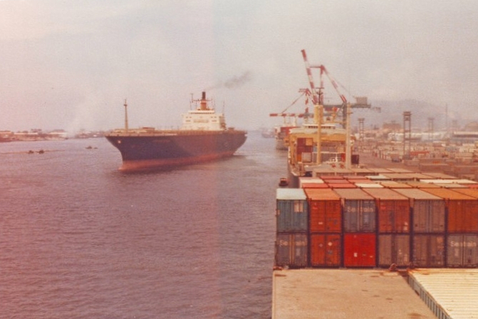 TS Hamburg Express in the port of Kobe, Japan 1978